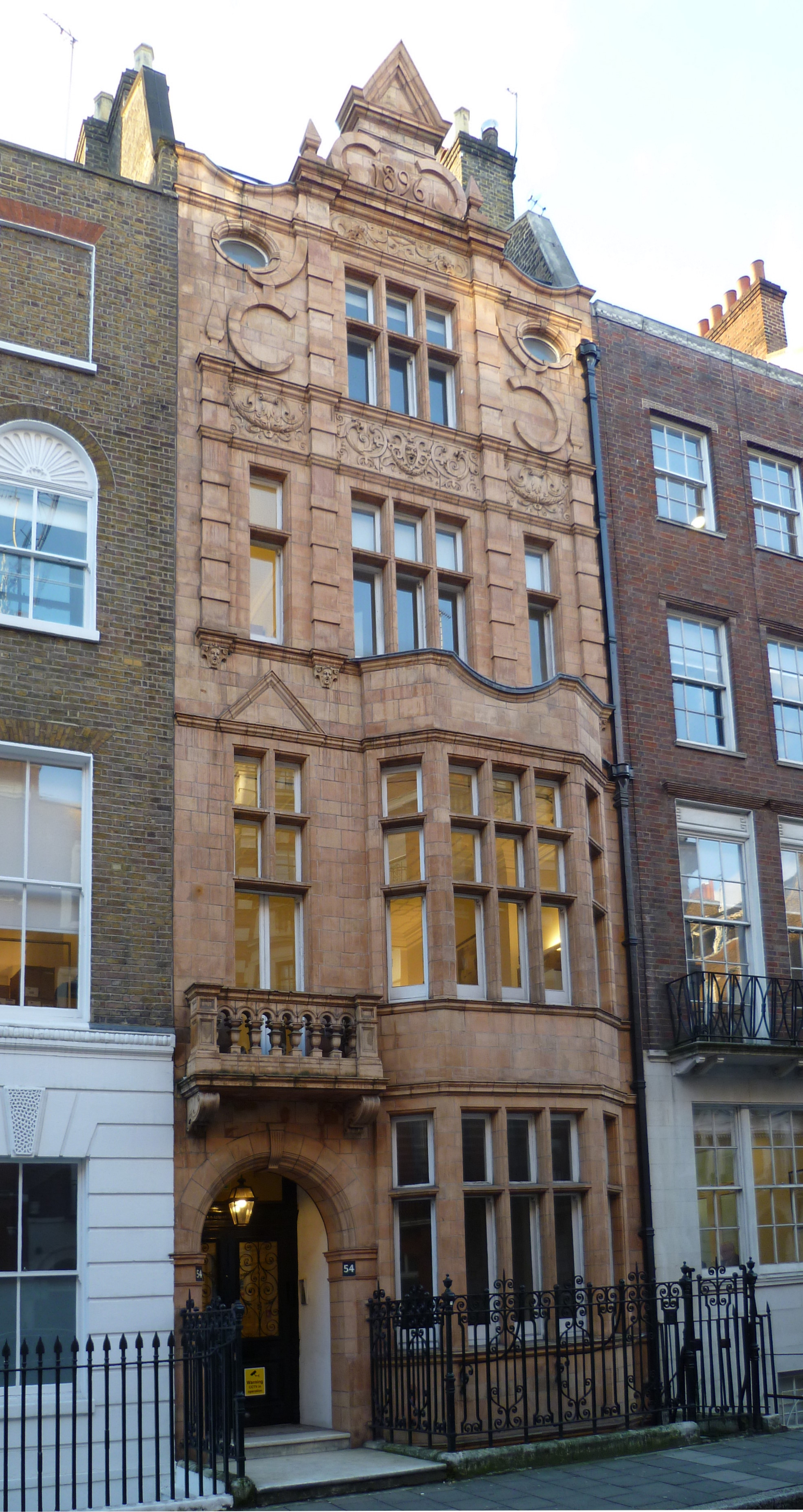 London